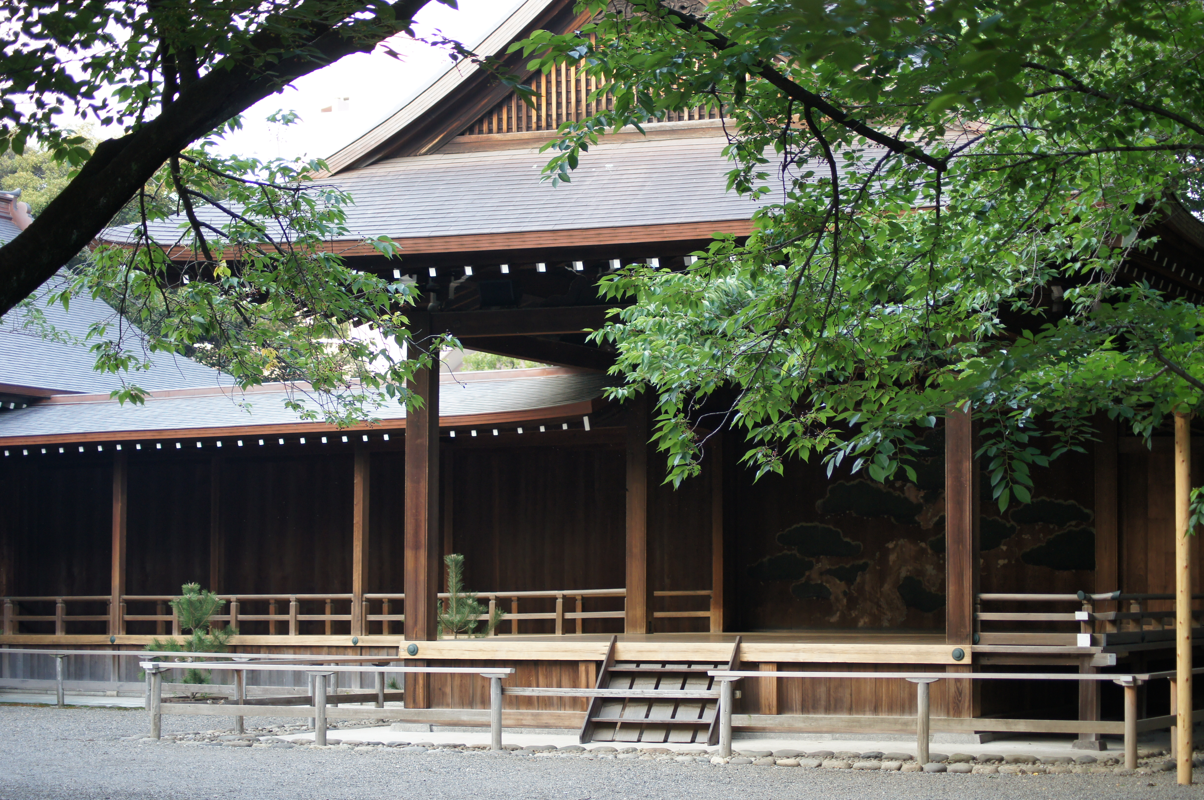 Yasukuni Shrine Nogakudo